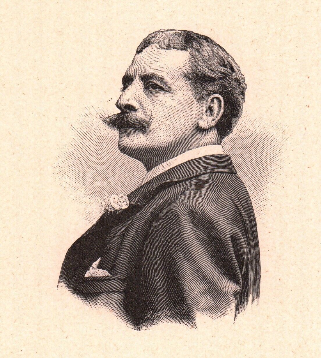 Victor Capoul (1839-1924), French tenor